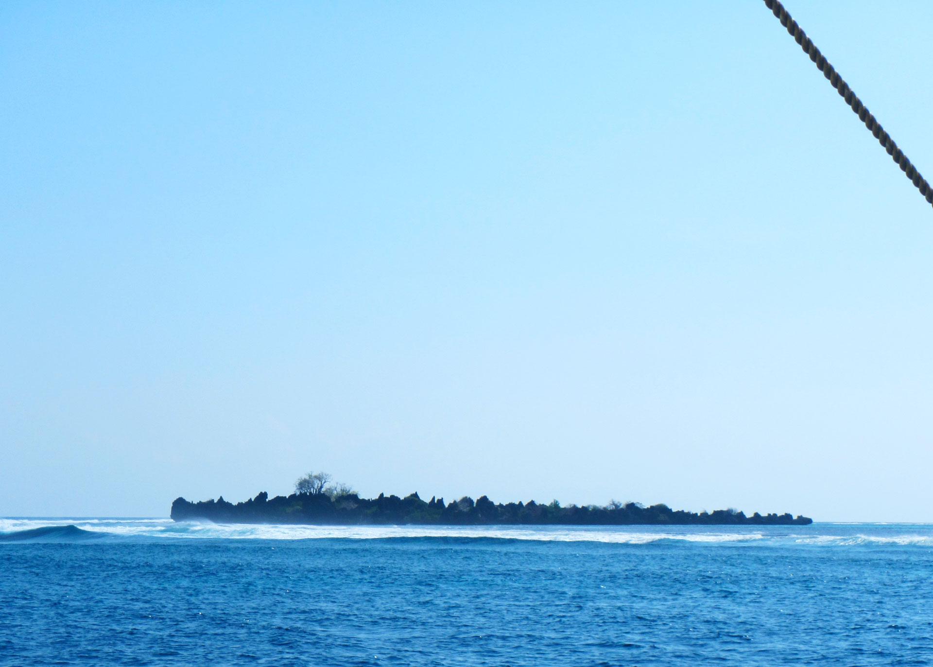 The Apo Menor Island is the second largest island in the Apo Reef and is primarily made up of rocks. Taken by Schadow1 Expeditions during its mapping expedition of Sablayan and Apo Reef of Occidental Mindoro.